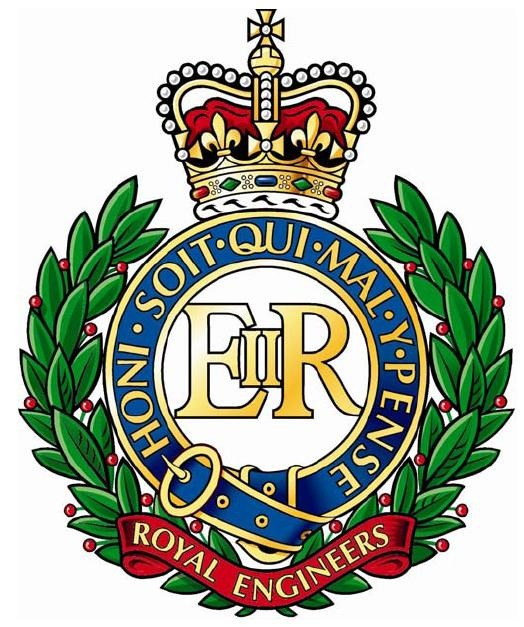 The colour cap badge of the Corps of Royal Engineers